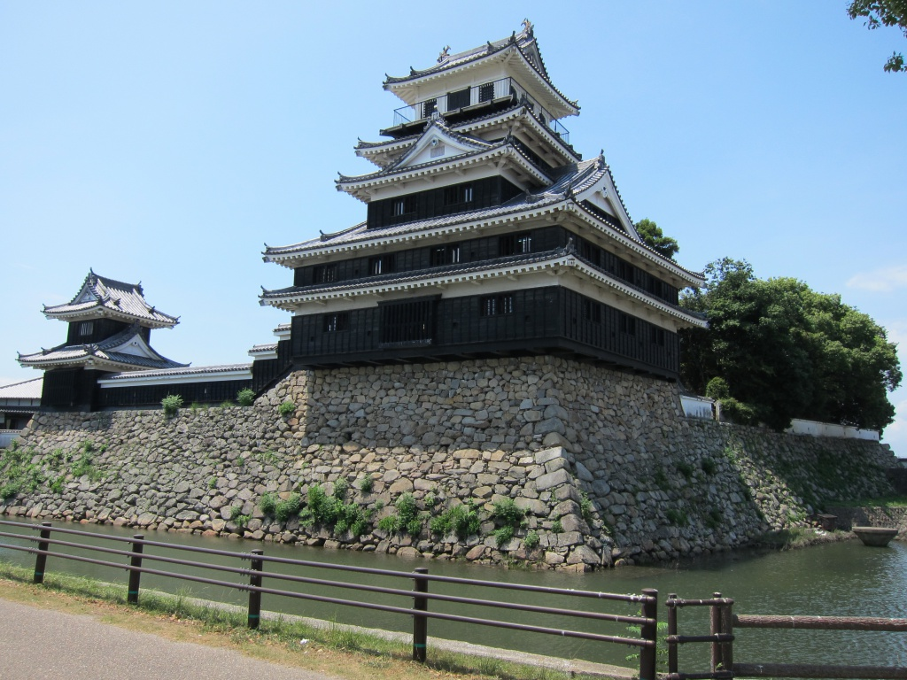 Nakatsu Castle